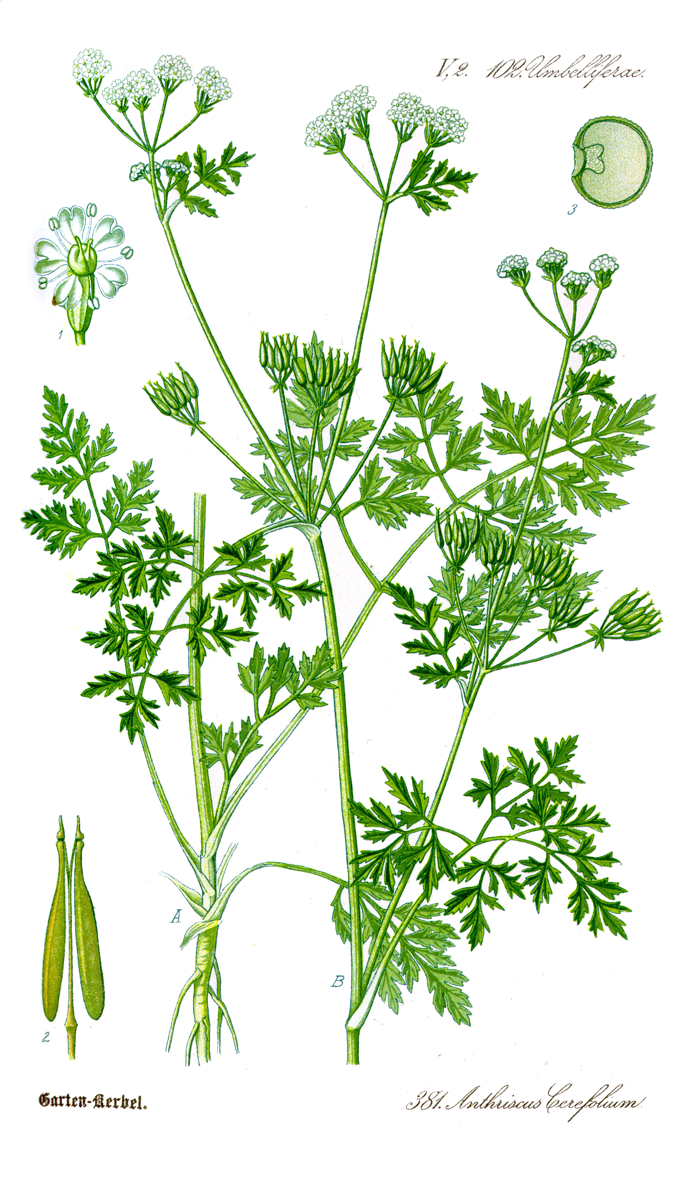 Name: Anthriscus cerefolium, Family: Apiaceae